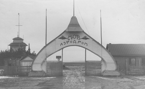 Moscow Khodynka Airport (also known as Moscow Tsentralny) was a former airport in Moscow, Russia located 7 km north-west of the center of the city. It was the only airport in the city until the opening of Vnukovo in 1941. It is no longer active and today the whole site has been redeveloped for other uses. It was home to a large number of stored aircraft from Sukhoi and Mikoyan-Gurevich (which were moved to Lukhovitsy).